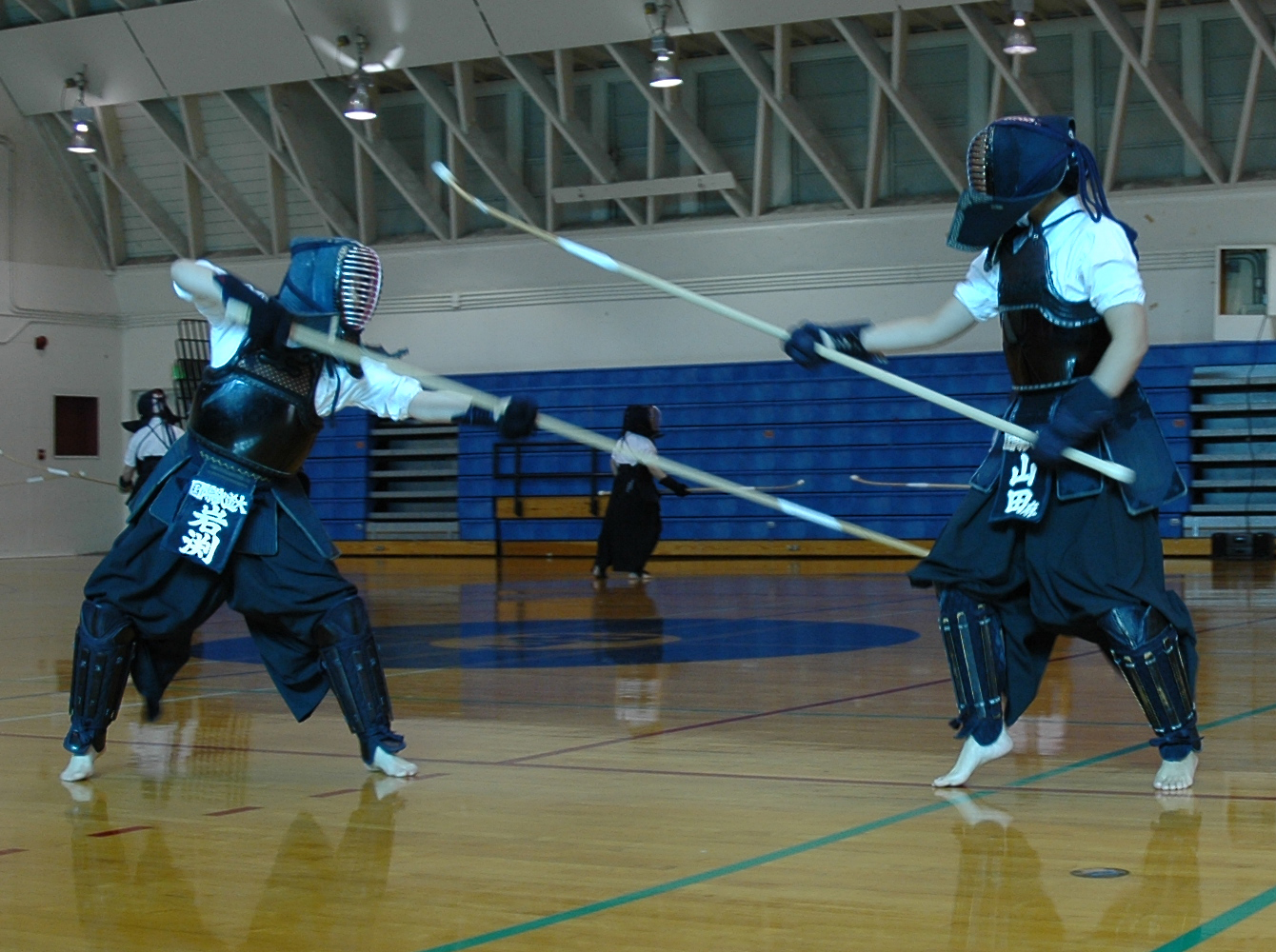 Bogu demonstation by students from the International Budo University in Japan. Sune strike in bogu.